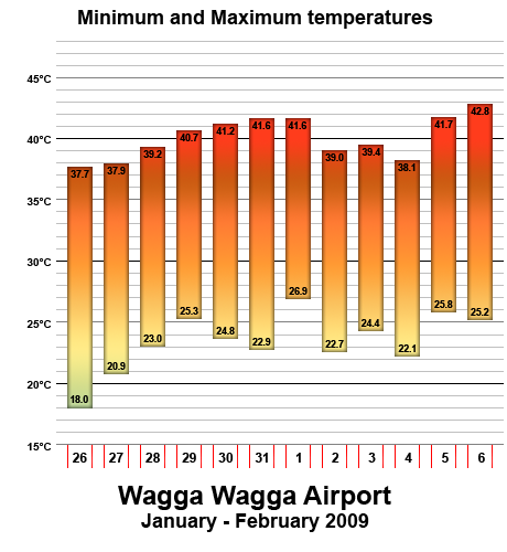 A graph of the minimum and maximum temperatures recorded in Wagga Wagga, New South Wales at the airport during the 2009 Southeastern Australia heat wave.